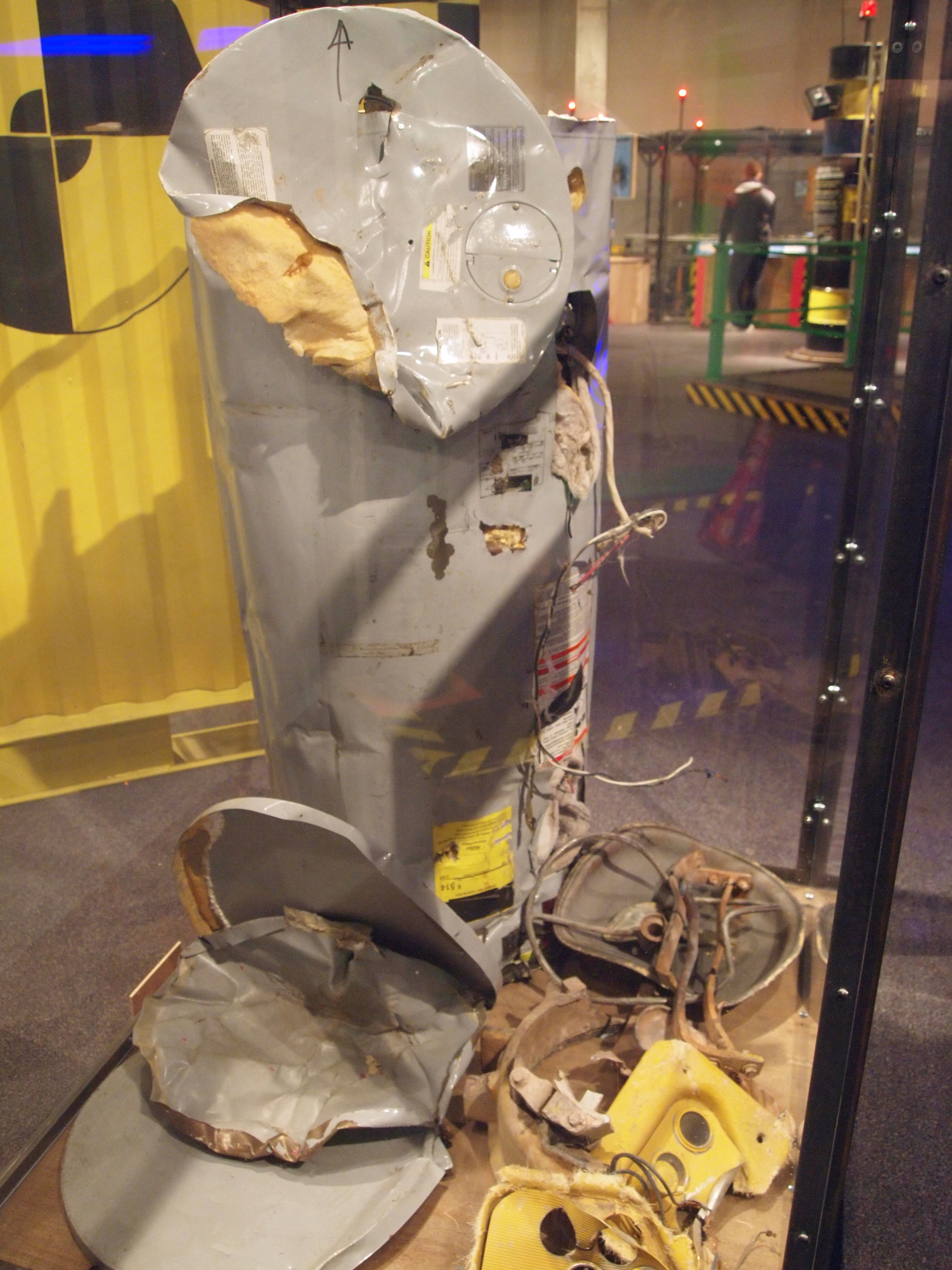 MythBusters Exploding Water Heater